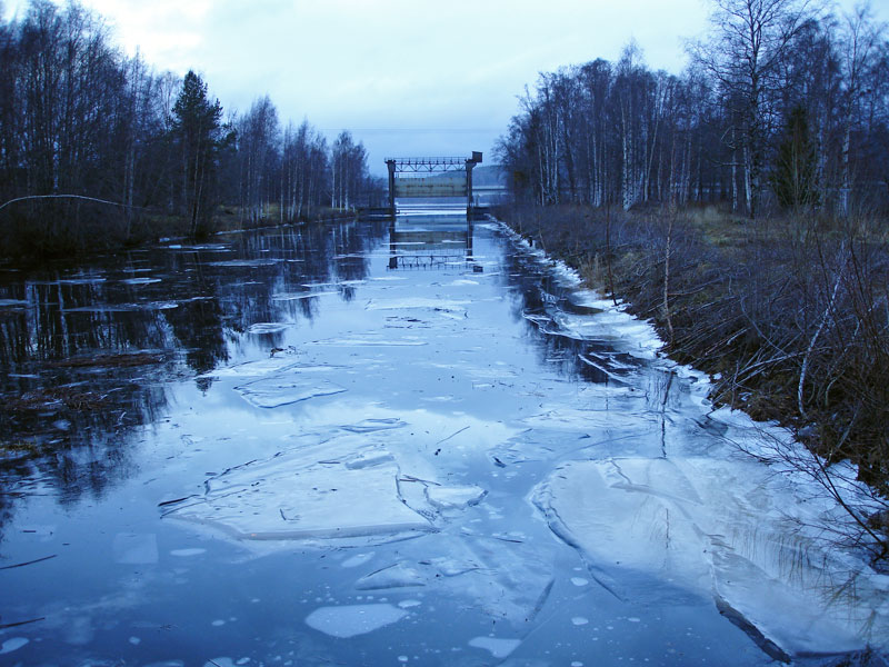 The sluice at the outlet of lake Veckefjärden in river Moälven between Hörnett and Svedjeholmen in Örnsköldsvik Municipality in Northern Sweden. The purpose of the sluice is to prevent sea water from flooding into Veckefjärden, from where sweet water is led to the industry Domsjö Fabriker.